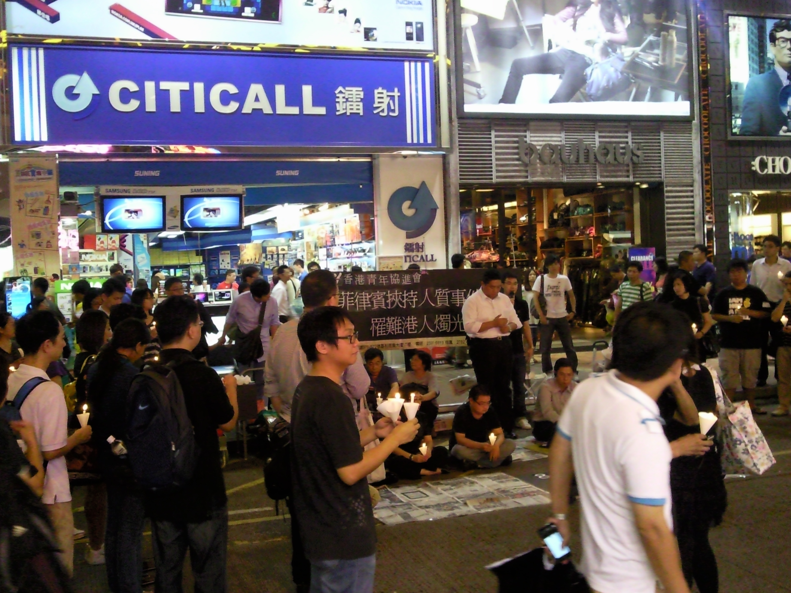 HKYUA members were mourning the Hong Kong tourists who was killed in 2010 Manila hostage crisis.